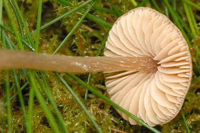 Entoloma cetratum from Commanster, Belgium. If you think this is a different taxon, please contact James Lindsey.